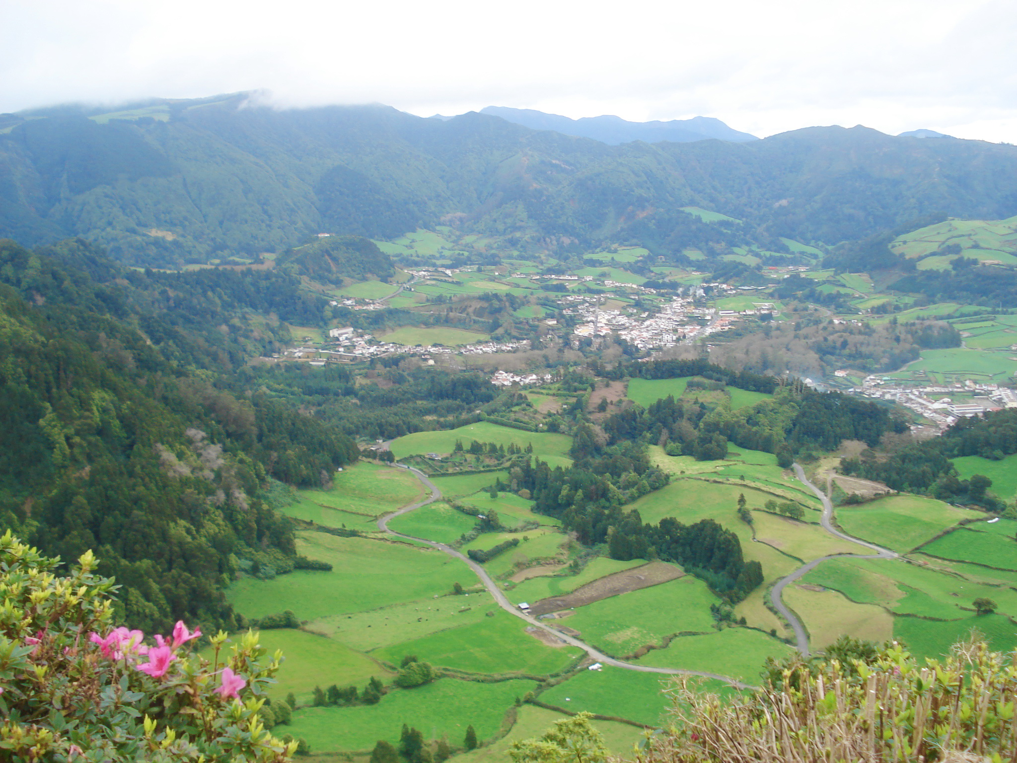 The centre of the civil parish of Furnas, seen from the Miradouro de Lombo dos Milhos, municipality of Povoação (Azores), Portugal